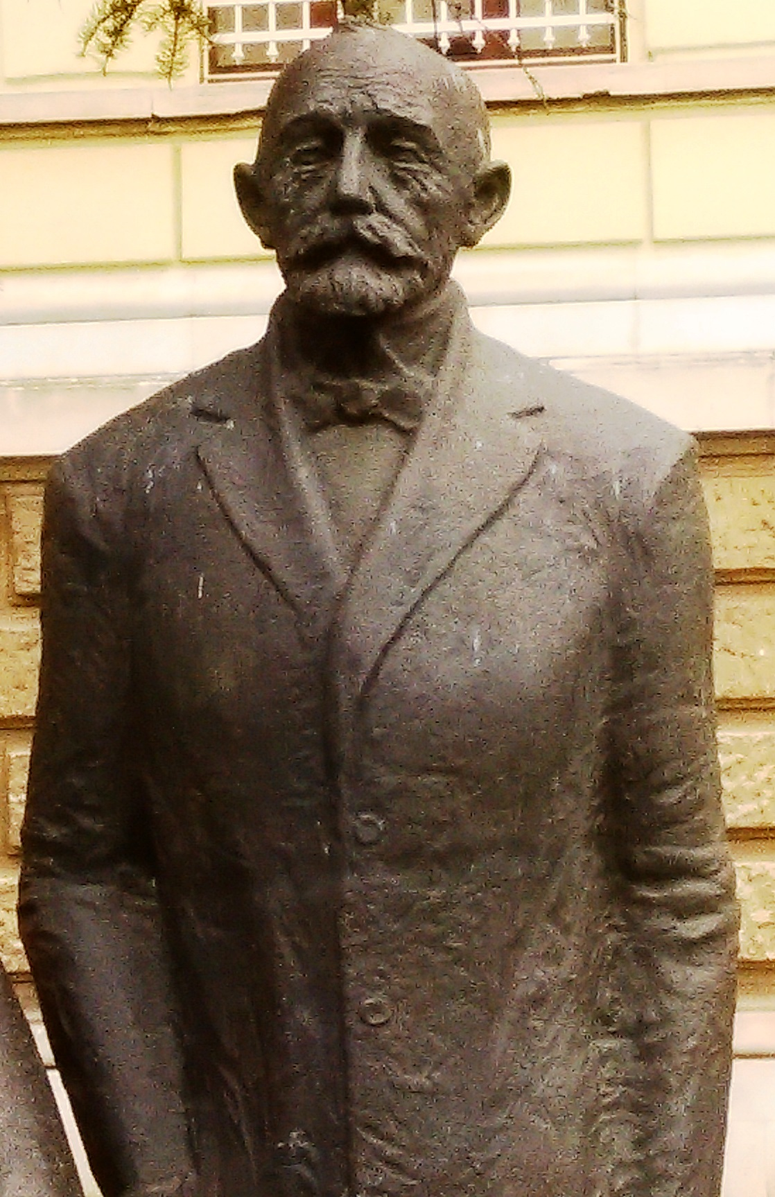 A statue of the czech-bulgarian archaelogist Herman Škorpil at Varna archaelogical museum, Bulgaria